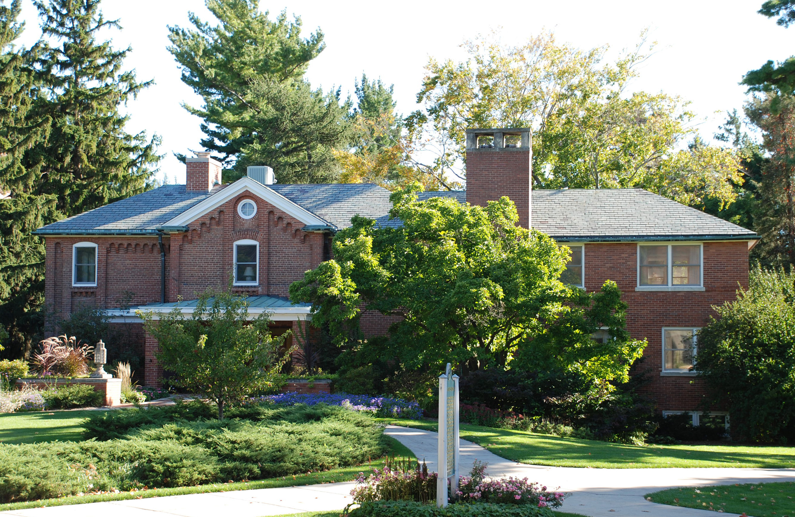 The Alice B. Cowles House is the official home of the university president and is the oldest existing building on campus.